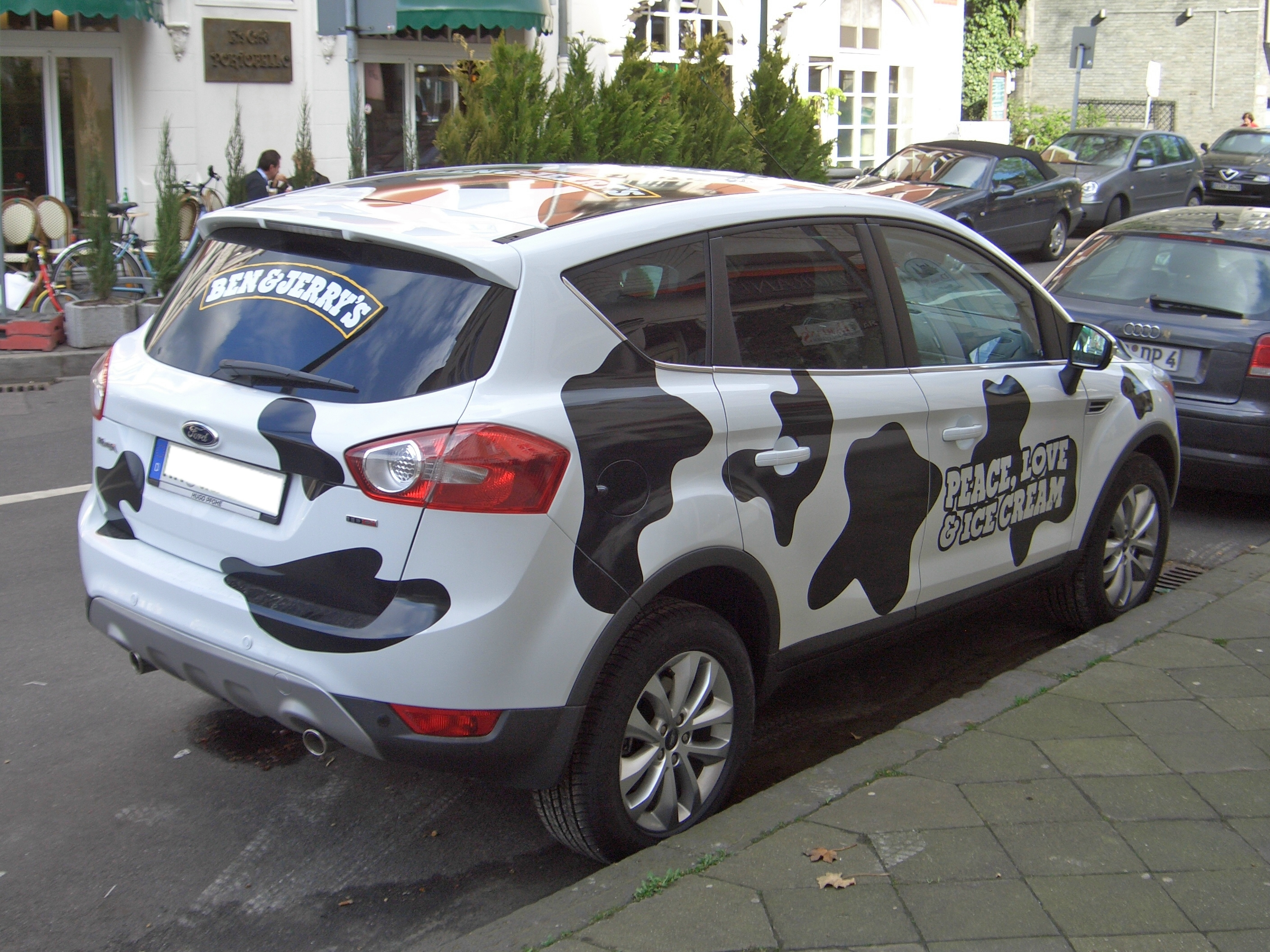 Ford KugaTDCi, Gen1 (from 2008), BEN & JERRY´S promotion, seen in Duesseldorf, Germany